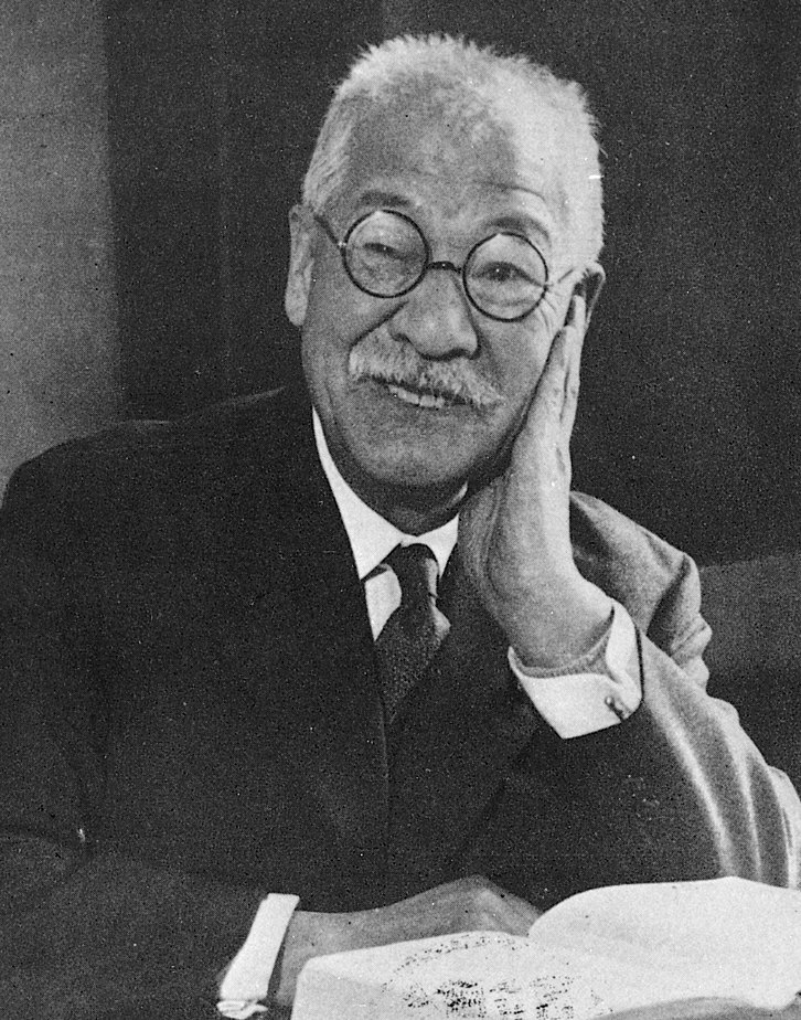 Portrait of Tokutomi Soho (徳富蘇峰, 1863 – 1957)